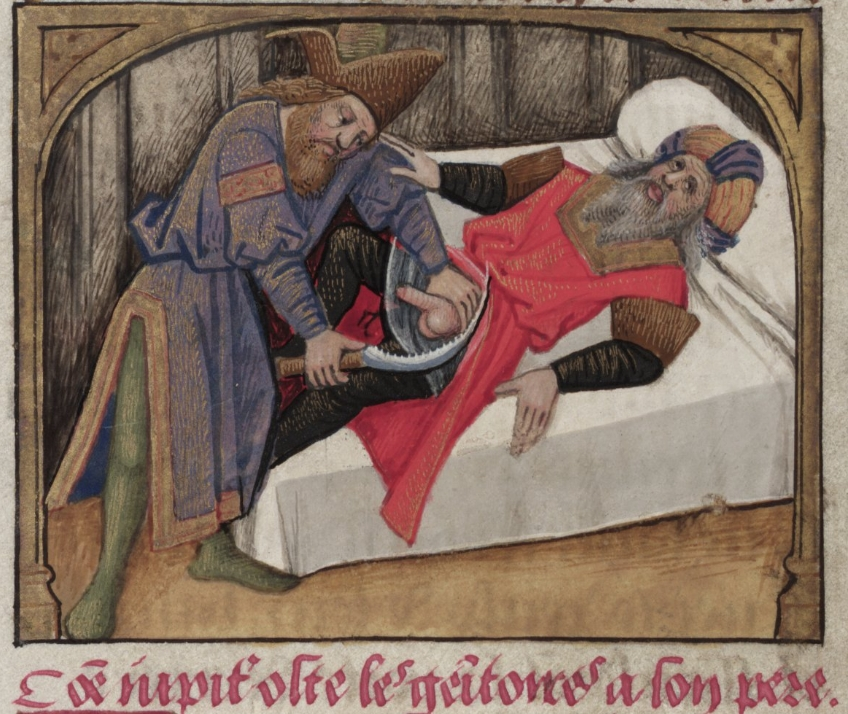 Castration of Saturn, MS Douce 195 Guillaume de Lorris & Jean de Meung, Roman de la Rose. France, 15th century (end). Bodleian Library, MS. Douce 195, fol. 76v